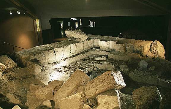 The Collapsed Heroon, image from the Royal Tombs, Vergina, Central Macedonia, Greece